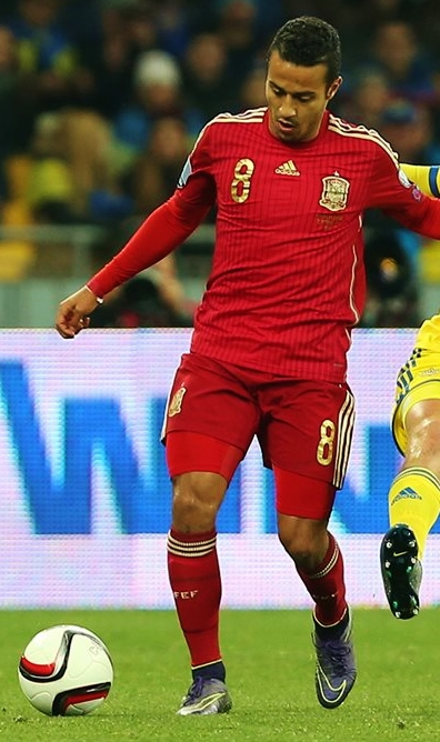 Thiago Alcântara